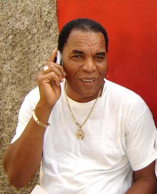 Duas lendas vivas: Black Scorpio e Bunny Rugs. Foto Dubdem e FabDub.